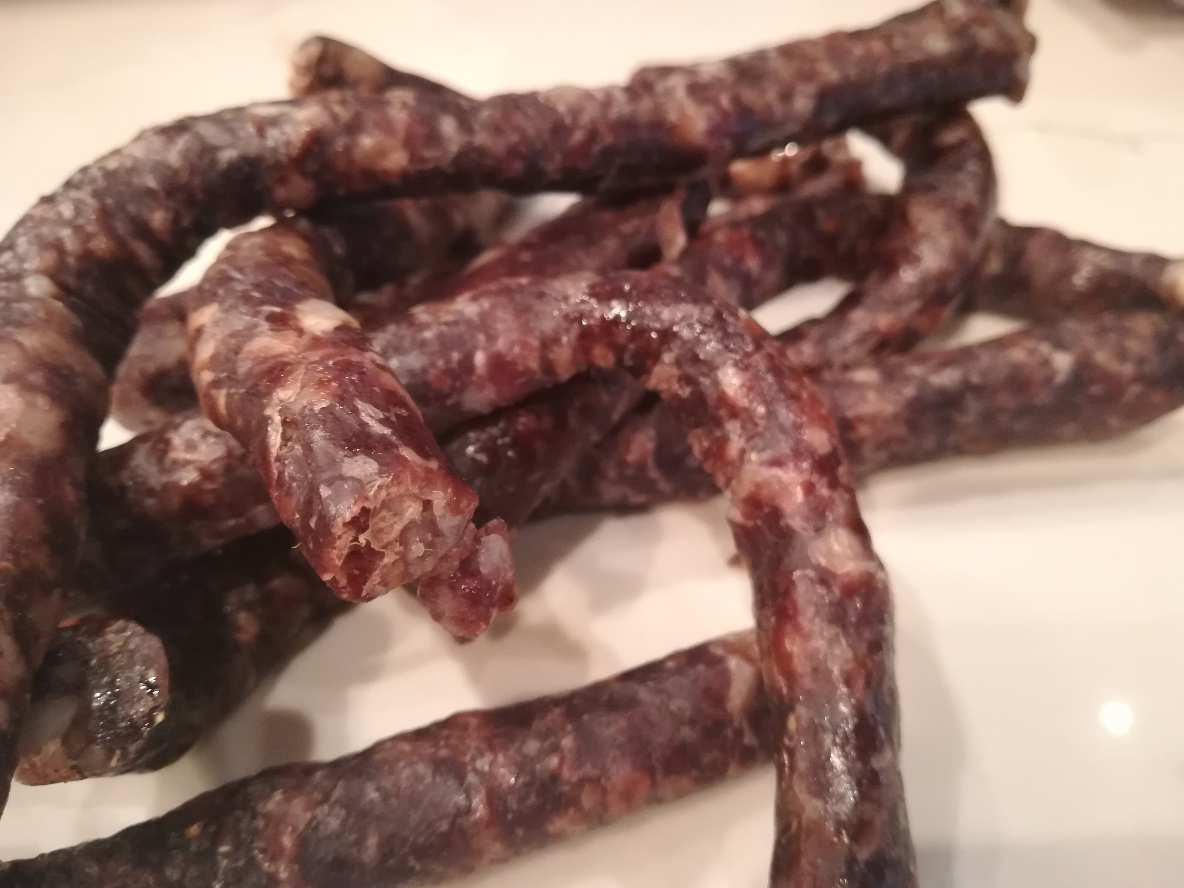 Namibian droëwors, made from oryx meat